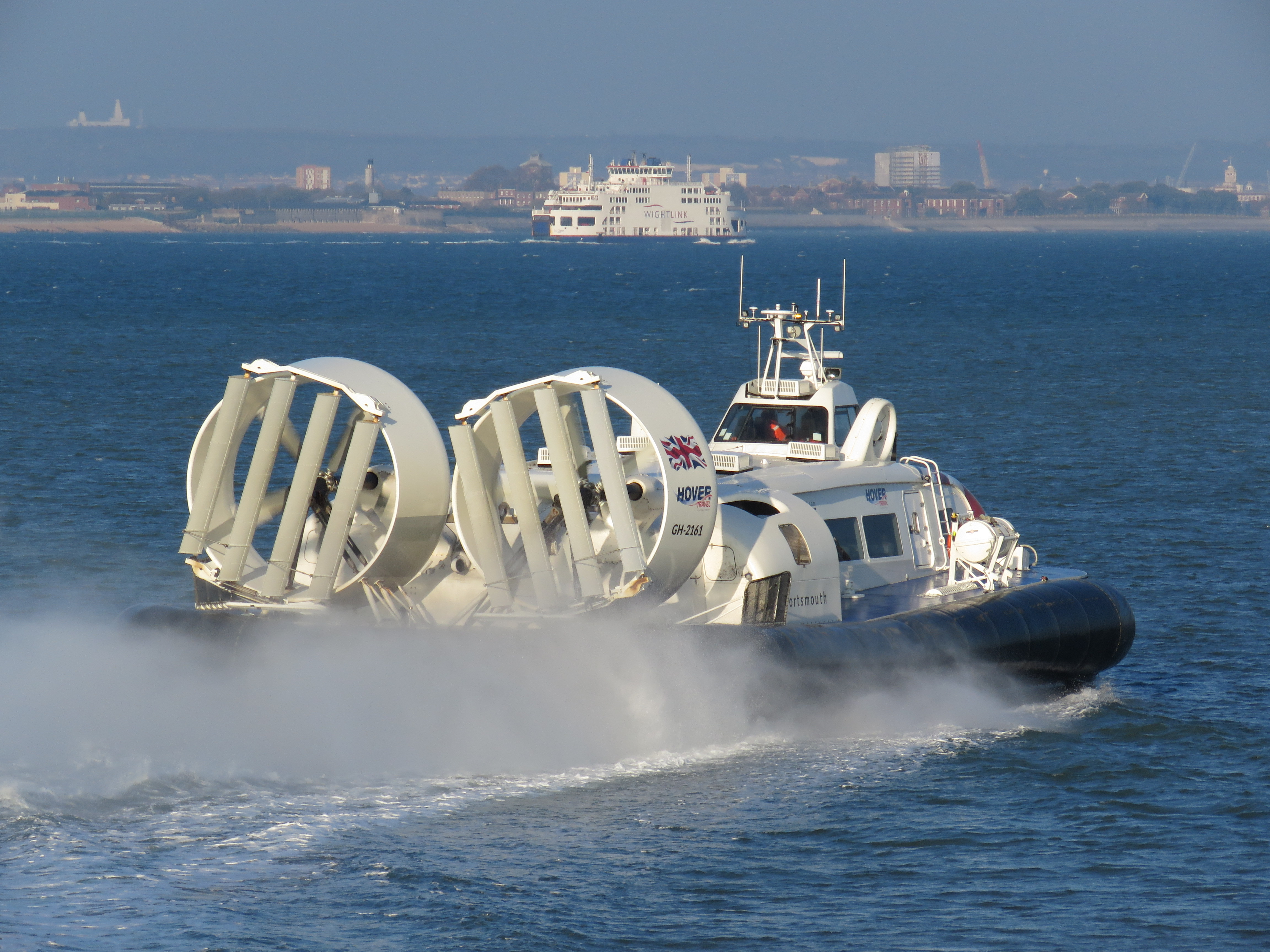 hovercraft leaving Ryde, Isle of Wight, bound for Gosport, Hampshire